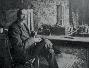 Nevil Maskelyne circa 1903